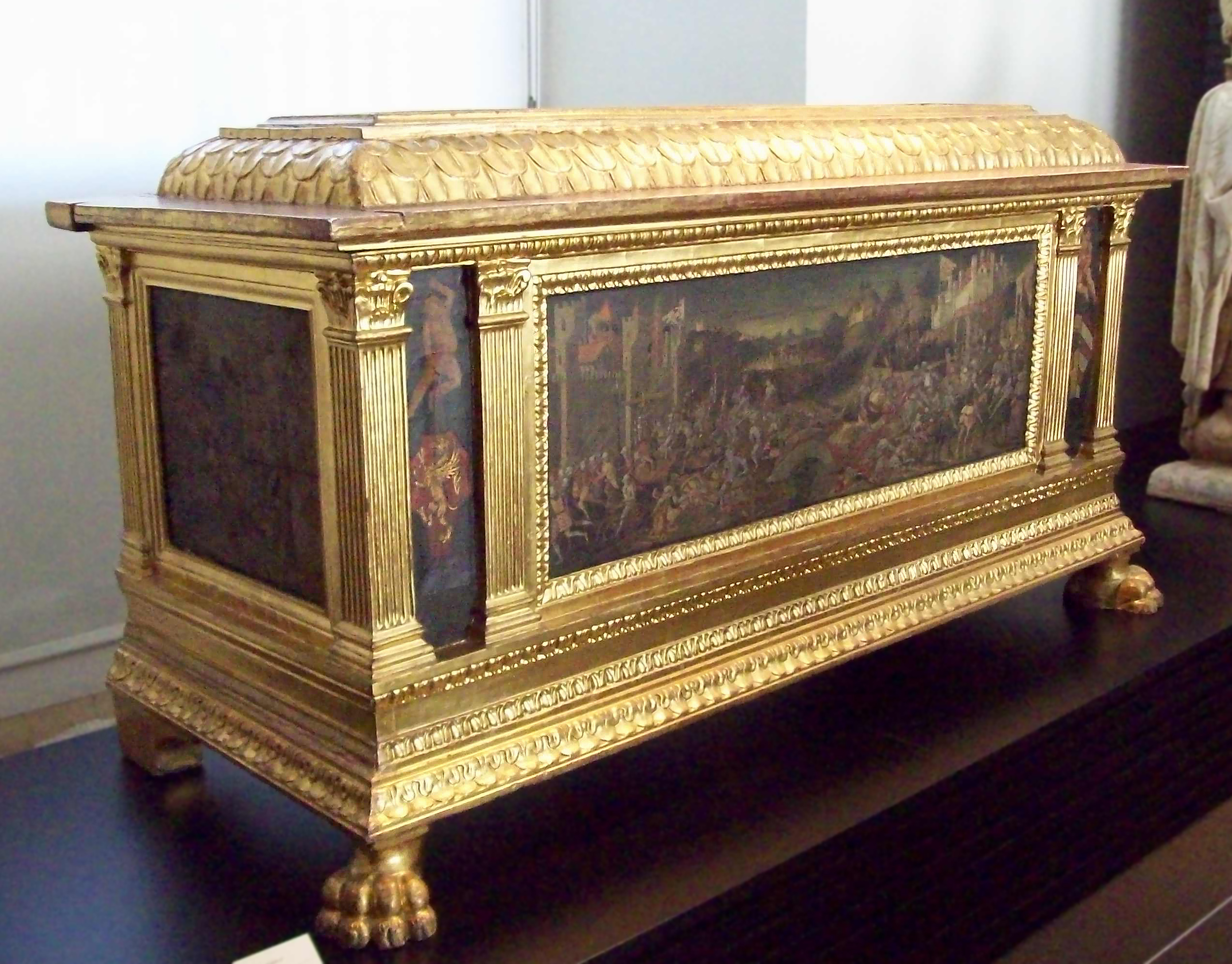 A Renaissance hope chest (cassone). The frontal picture represents the final act of the Battle of Anghiari (1440).